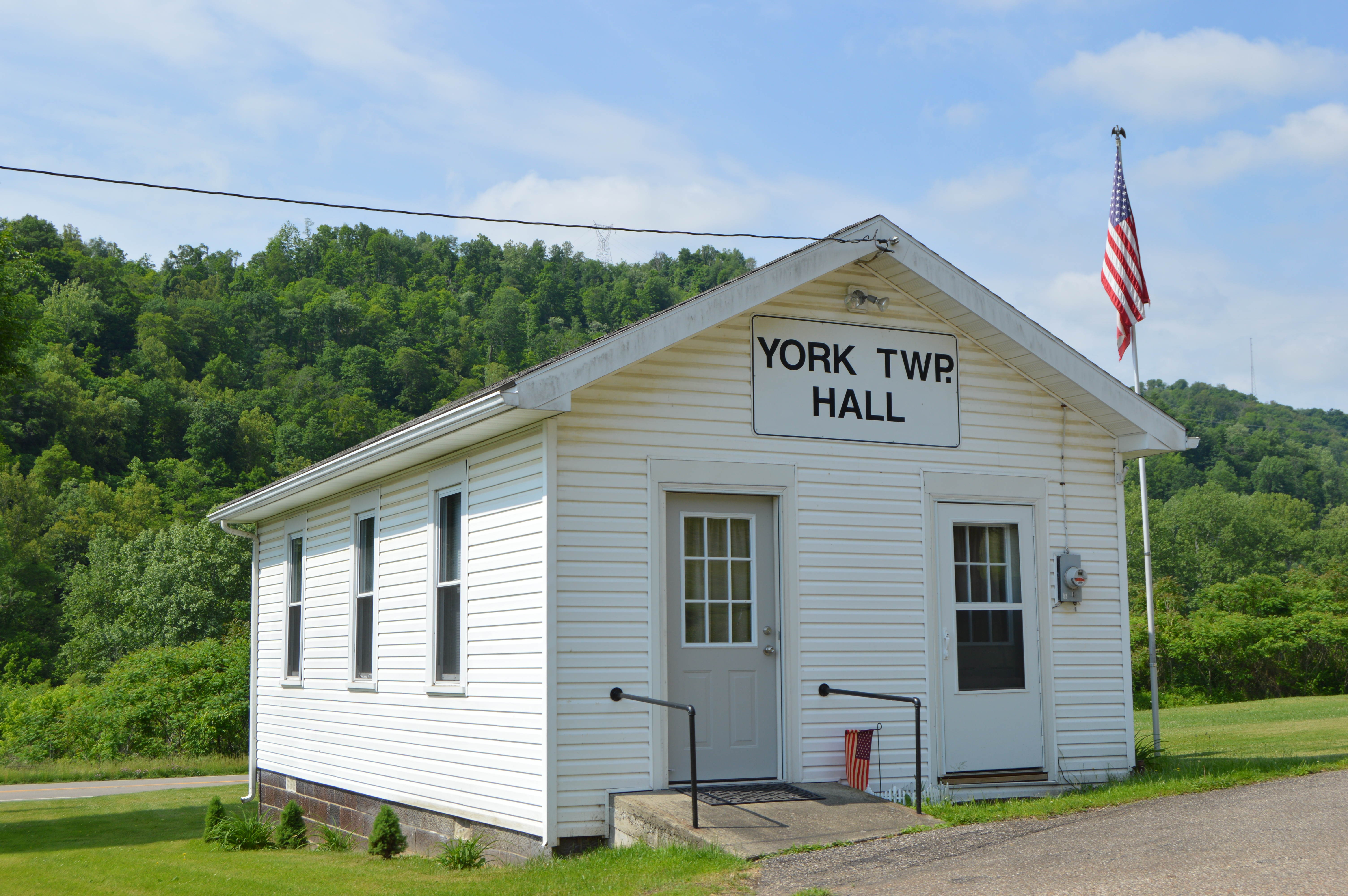 Front of the York Township hall, located on the southern side of Mount Victory Road in Steinersville, Ohio, United States.